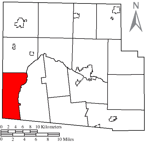 Made by the US Census and modified by myself to highlight the township